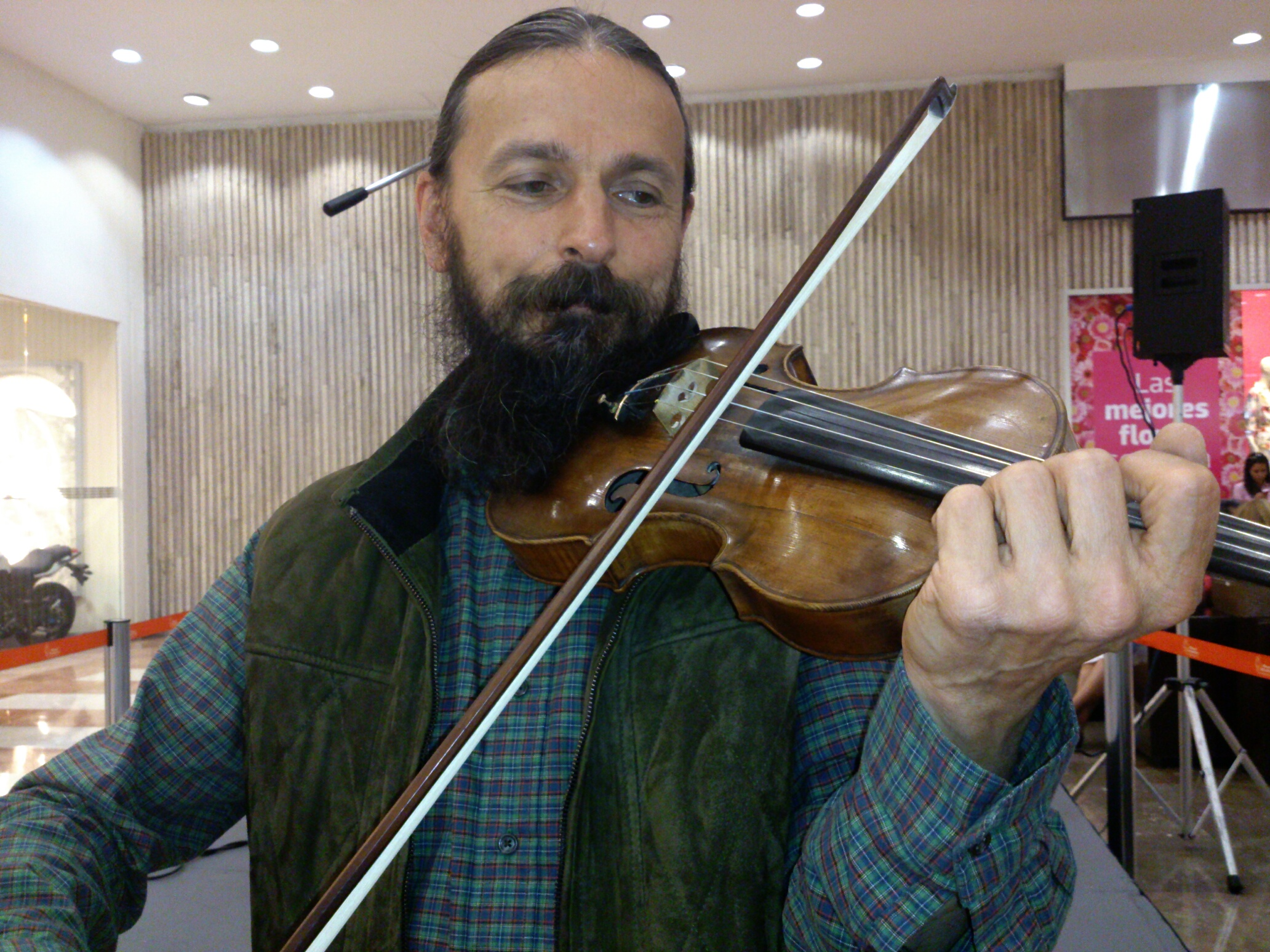 Sasha Gryzlov in Plaza satellite